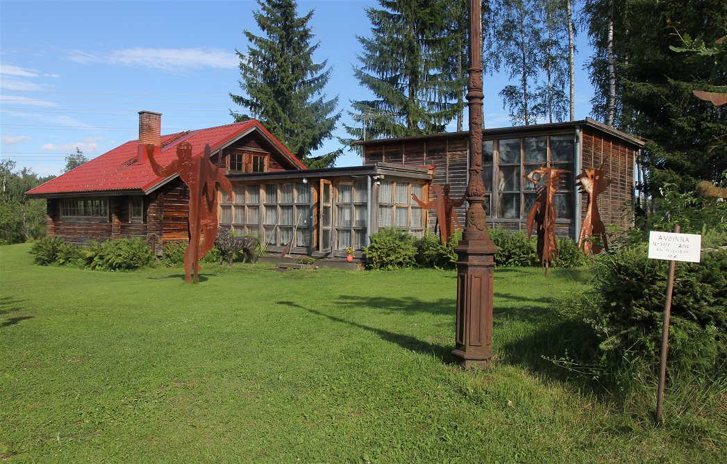 Talo Vilhunen on kuvataiteilija Risto Vilhusen koti ja ateljee Vantaan Sotungissa (Sepänrinne 6, 01260 Vantaa). Rakennuksen modernistisen, herkkää puutaloarkkitehtuuria edustavan ateljeeosan (1971, kuvassa oikella) suunnittelivat arkkitehdit Juhani Pallasmaa ja Kristian Gullichen. Asuinosa ja eteistila (1978-83) on arkkitehti Jyrki Kalkeen suunnittelema. Viimeisenä valmistui matala kuistiosa, jolla ateljee liitettiin asuintaloon.